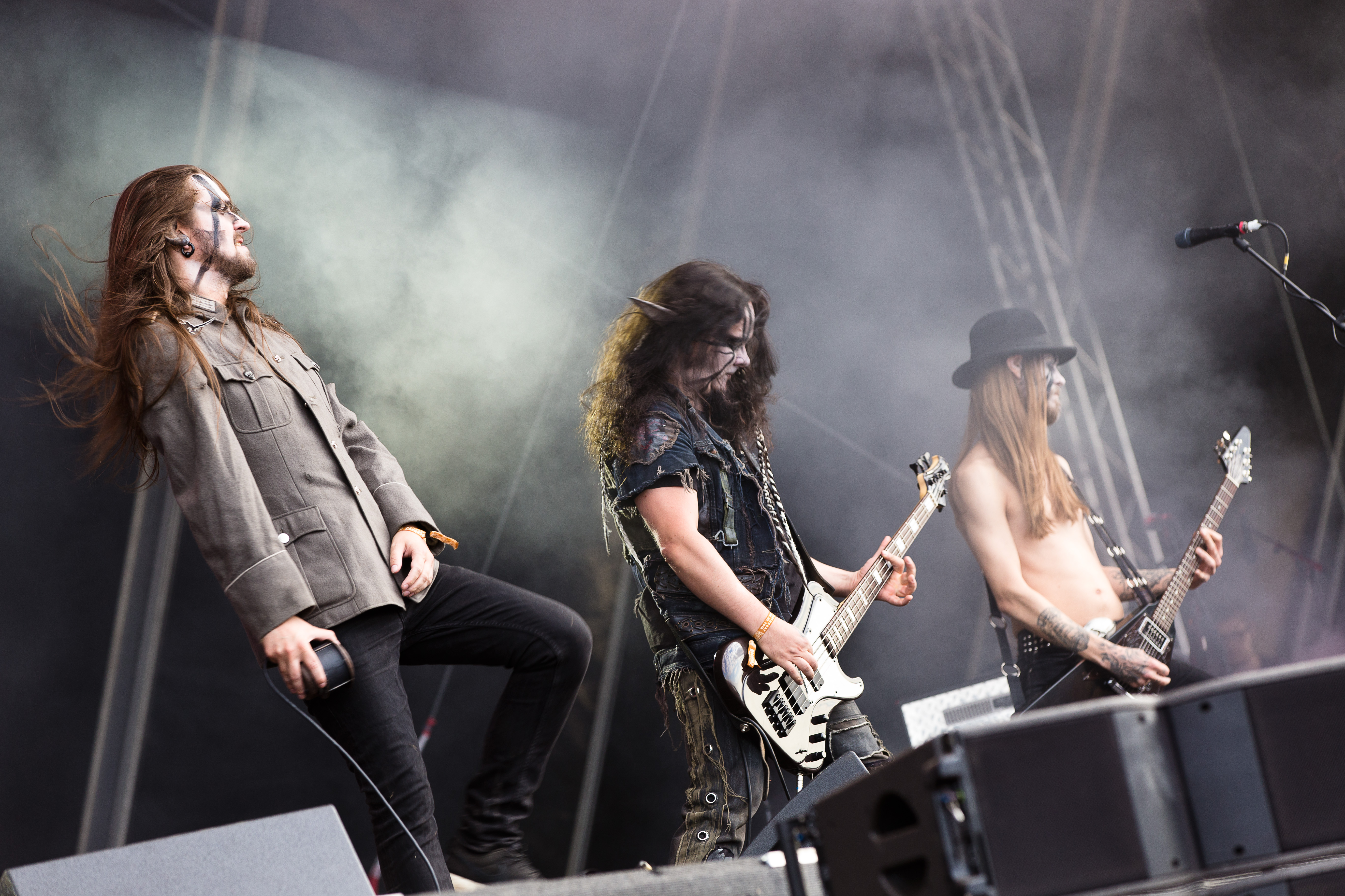 The Finnish folk metal band Finntroll at the Rockharz Open Air 2016 in Ballenstedt/Germany.